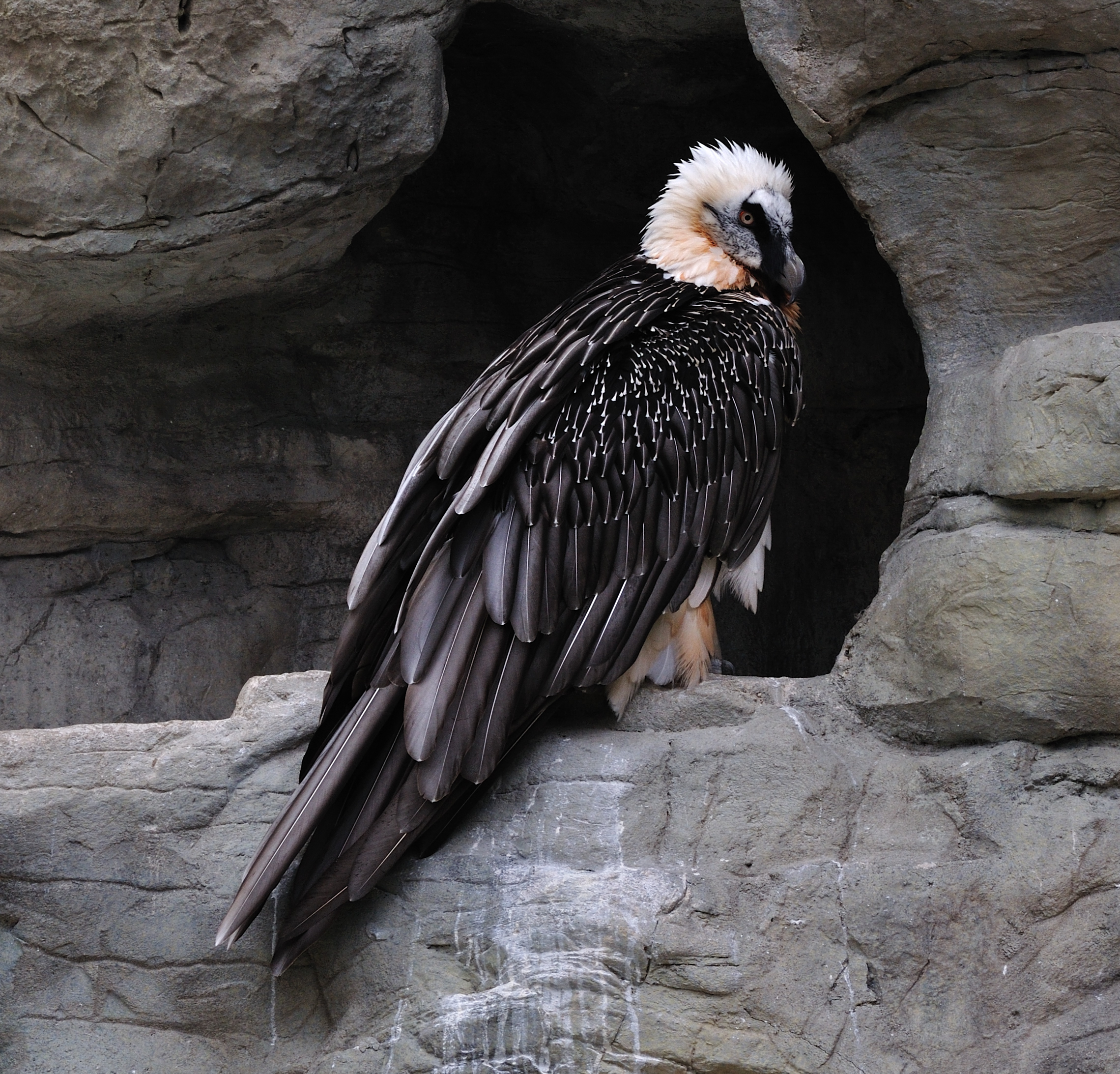 Bearded Vulture (Gypaetus barbatus) in the Frankfurt Zoo.